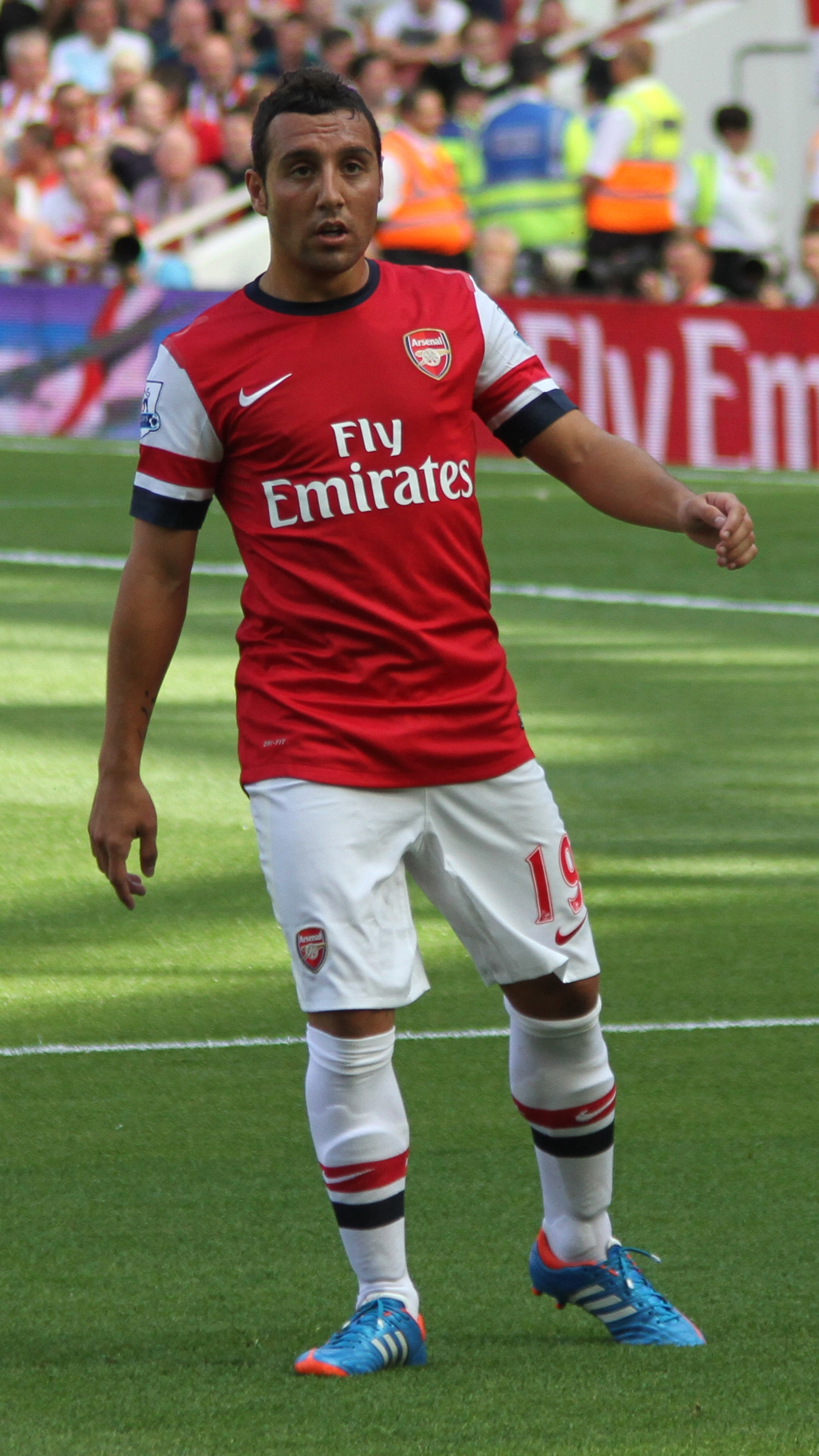 Santi Cazorla against Sunderland.